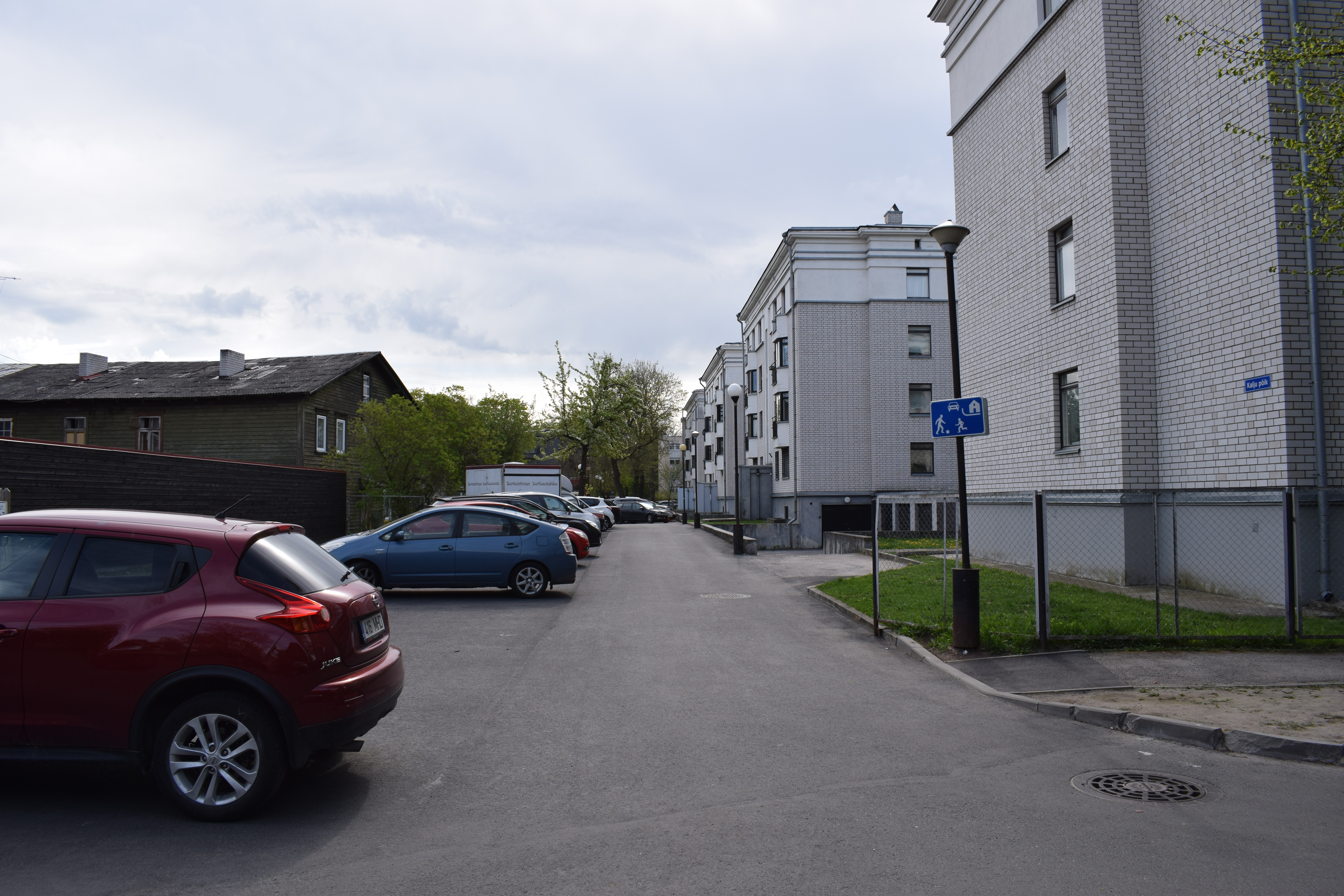 Kalju põik